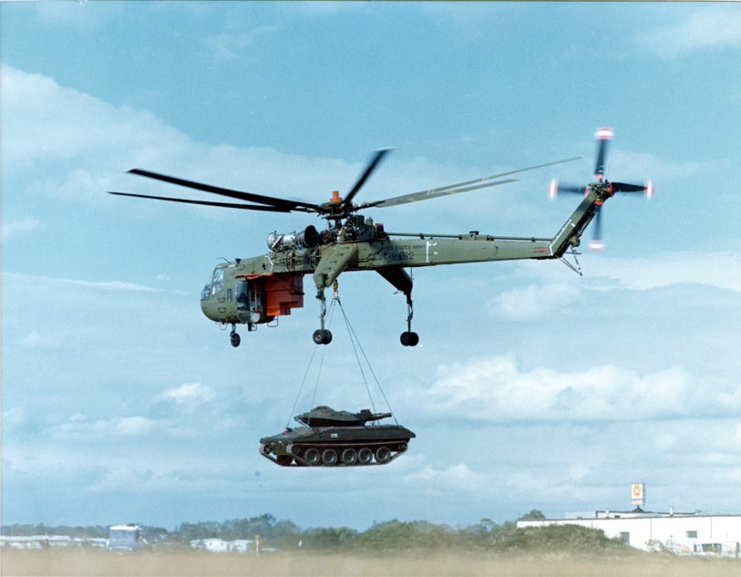 A CH54B "Tarhe" carries an M551 Sheridan. More commonly known as the "Flying Crane". US ARMY PHOTO Courtesy of Redstone Arsenal, Alabama.